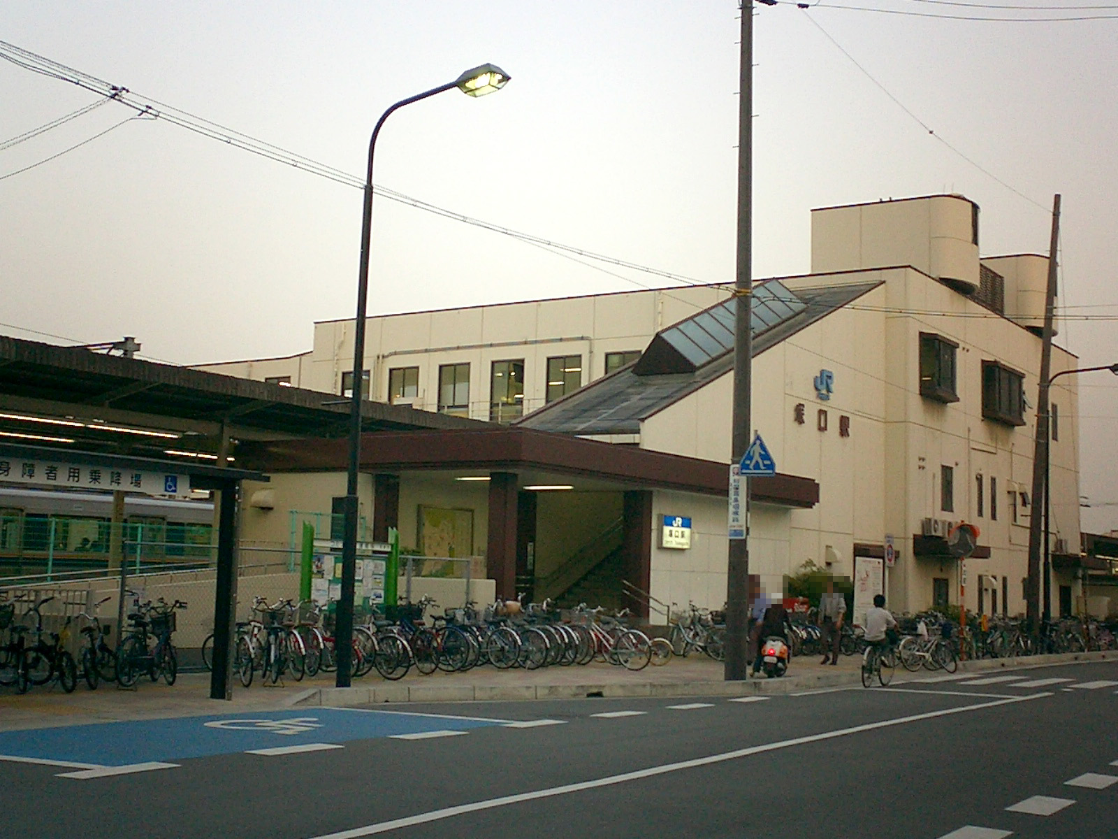 West Japan Railway Fukuchiyama Line（JR Takarazuka Line） Tsukaguchi Station Building